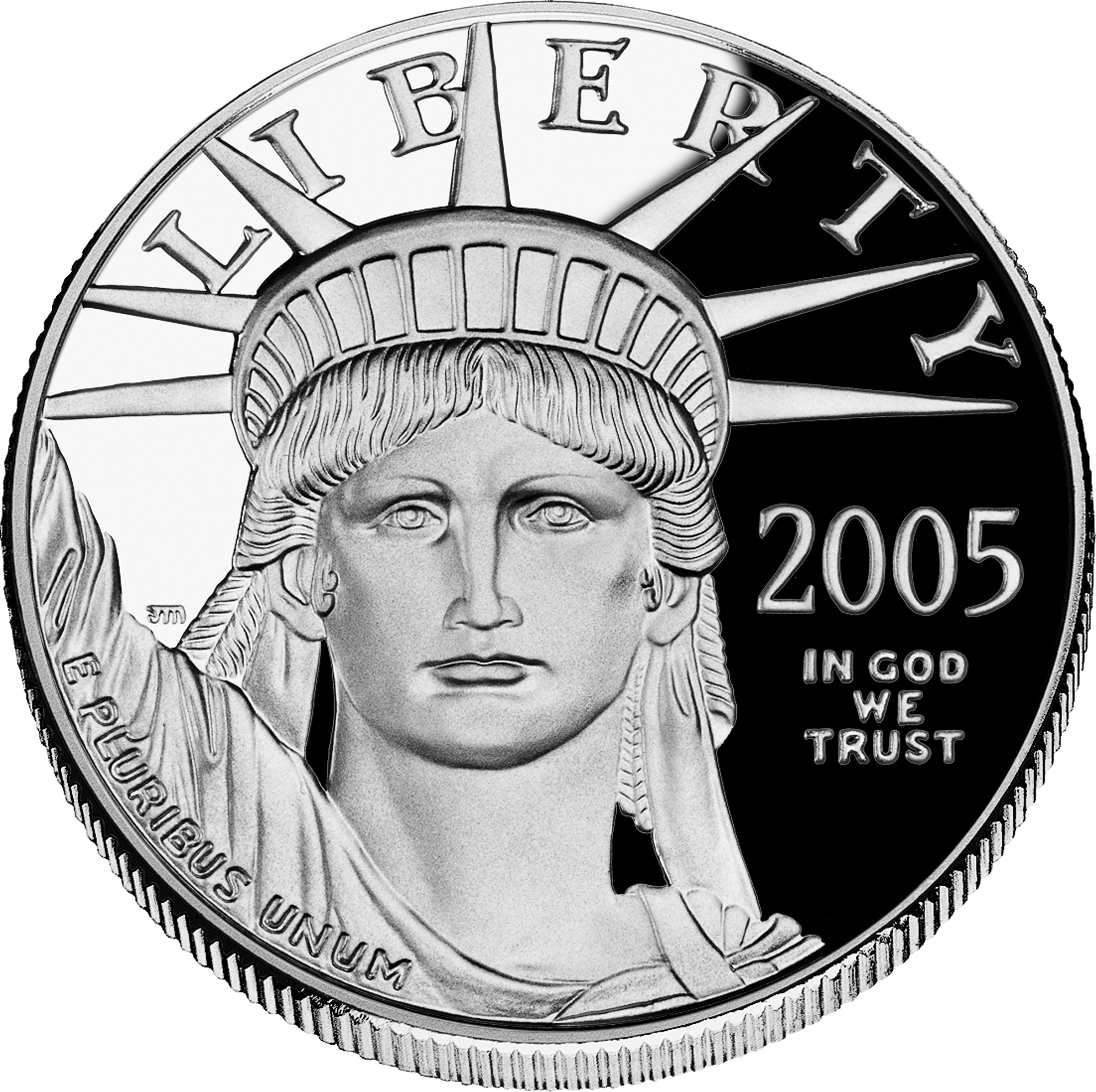 Removed background, cropped, and converted to PNG with Macromedia Fireworks. This image depicts a unit of currency issued by the United States of America. If Fraudulent use of this image is punishable under applicable counterfeiting laws. As listed by the United States Secret Service at money illustrations, the Counterfeit Detection Act of 1992, Public Law 102-550, in Section 411 of Title 31 of the Code of Federal Regulations (31 CFR 411), permits color illustrations of U.S. currency provided:1. The illustration is of a size less than three-fourths or more than one and one-half, in linear dimension, of each part of the item illustrated;2. The illustration is one-sided; and3. All negatives, plates, positives, digitized storage medium, graphic files, magnetic medium, optical storage devices, and any other thing used in the making of the illustration that contain an image of the illustration or any part thereof are destroyed and/or deleted or erased after their final use. Certain coins contain copyrights licensed to the U.S. Mint and owned by third parties or assigned to and owned by the U.S. Mint [1]. For the United States Mint circulating coin design use policy, see [2]; for the policy on the 50 State Quarters, see [3]. Also: COM:ART #Photograph of an old coin found on the Internet